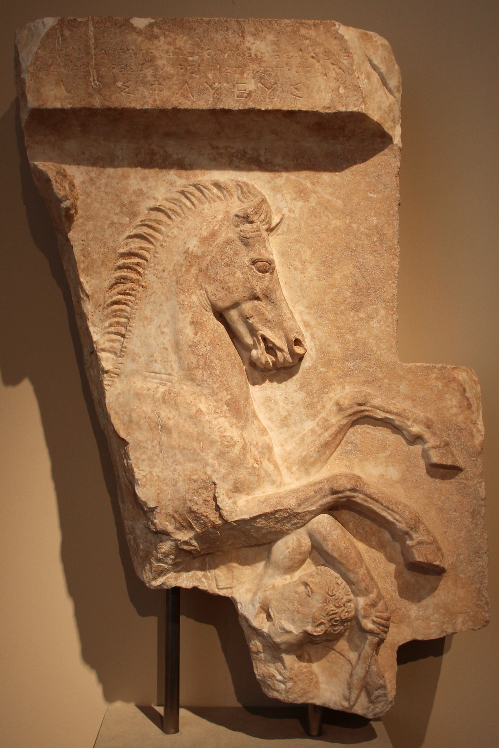 Ancient Greek sculptures in the Antikensammlung Berlin